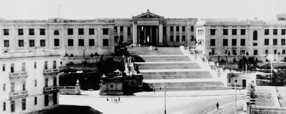 University of Havana